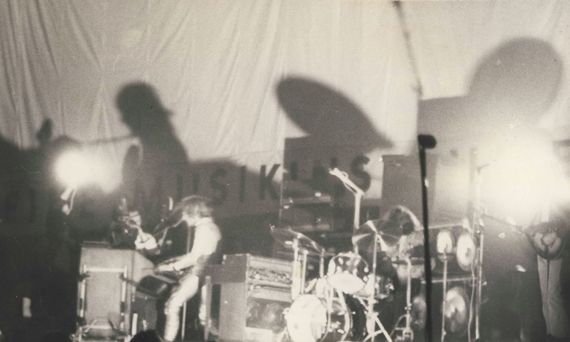 The Nice, Concert at Ernst-Merck-Halle in Hamburg, Easter 1970